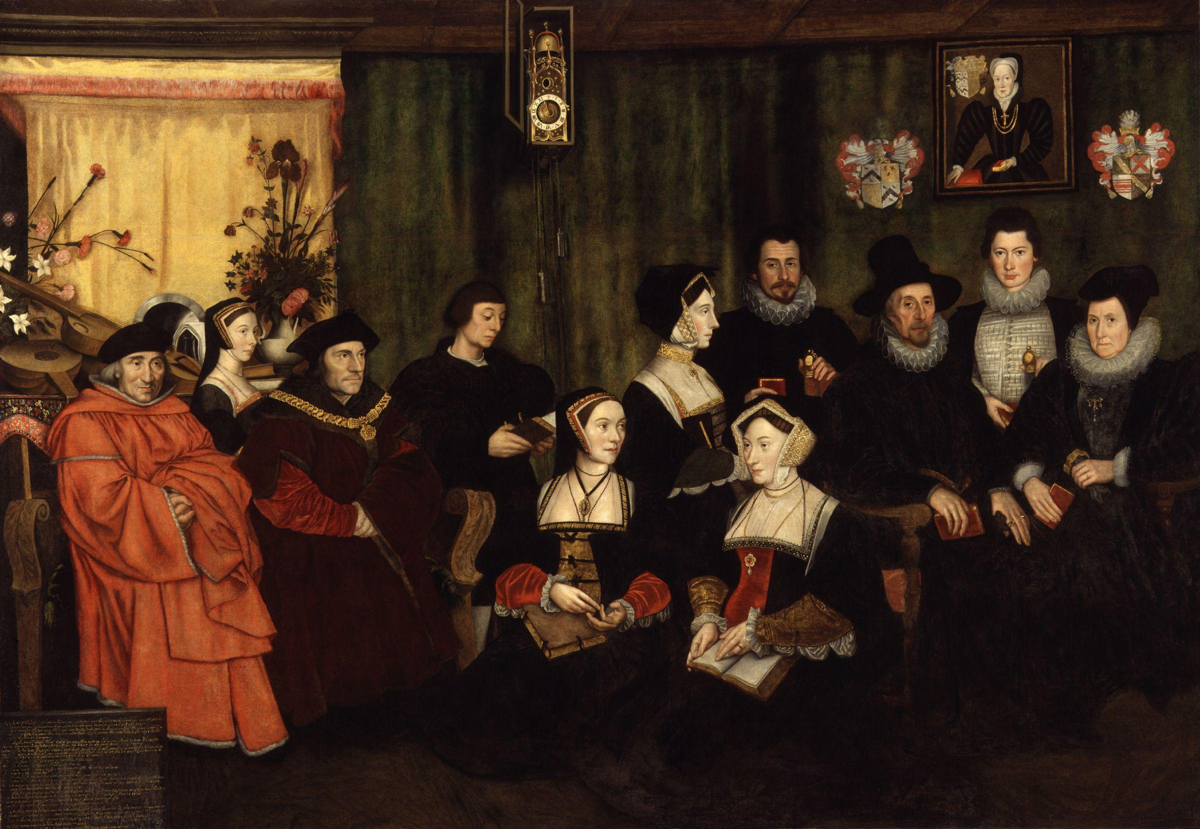 Sir Thomas More, his father, his household and his descendants, after Hans Holbein the Younger. All images in this batch have a known author, but have manually examined for strong evidence that the author was dead before 1939, such as approximate death dates, birth dates, floruit dates, and publication dates.